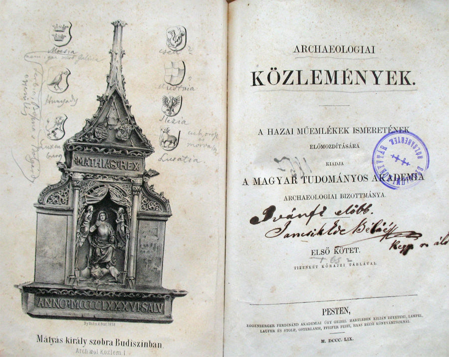 Title pages of Archaeologiai Közlemények I.